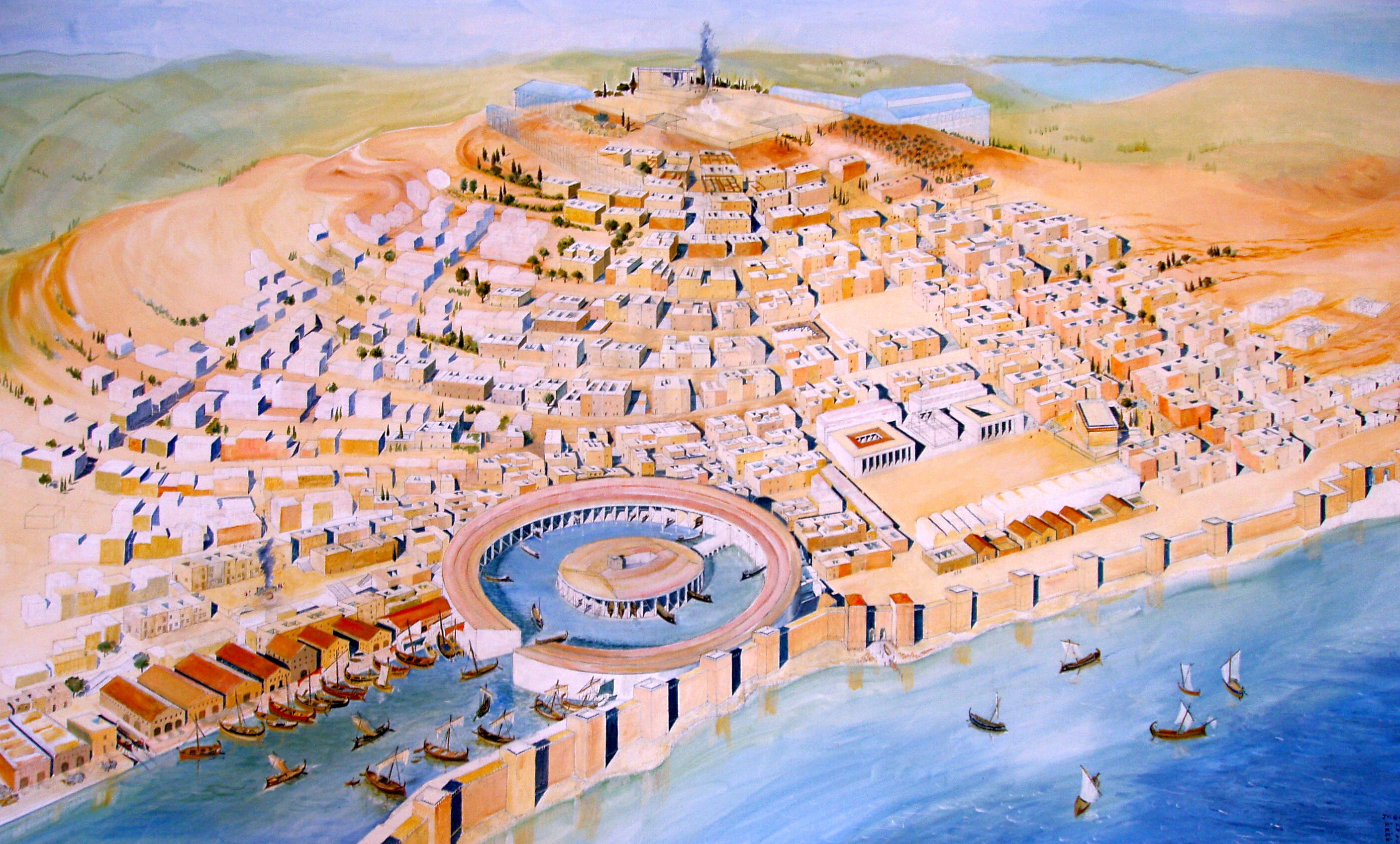 Representation of the Punic city in the Carthage National Museum